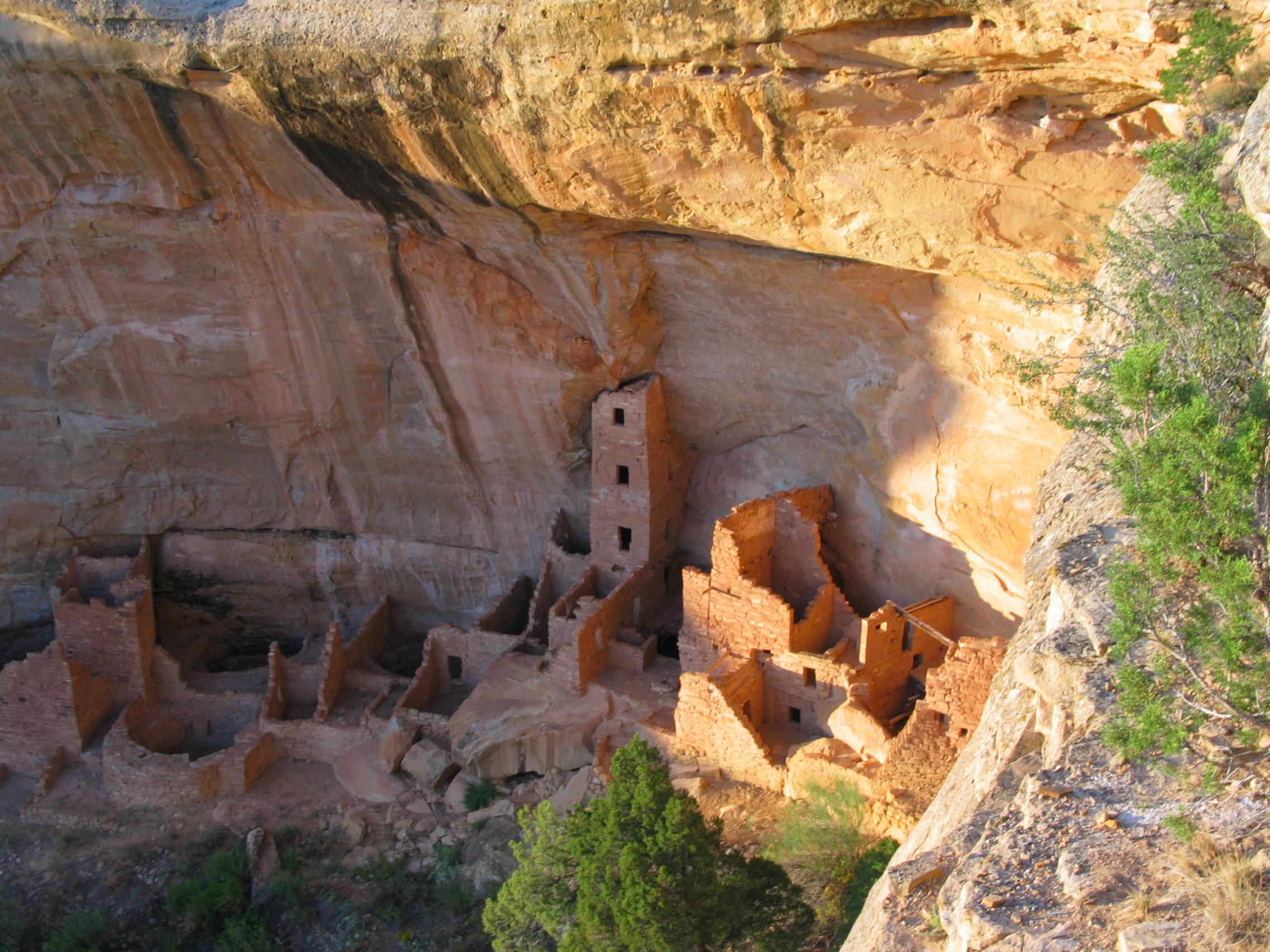 Square Tower House taken by Ben FrantzDale